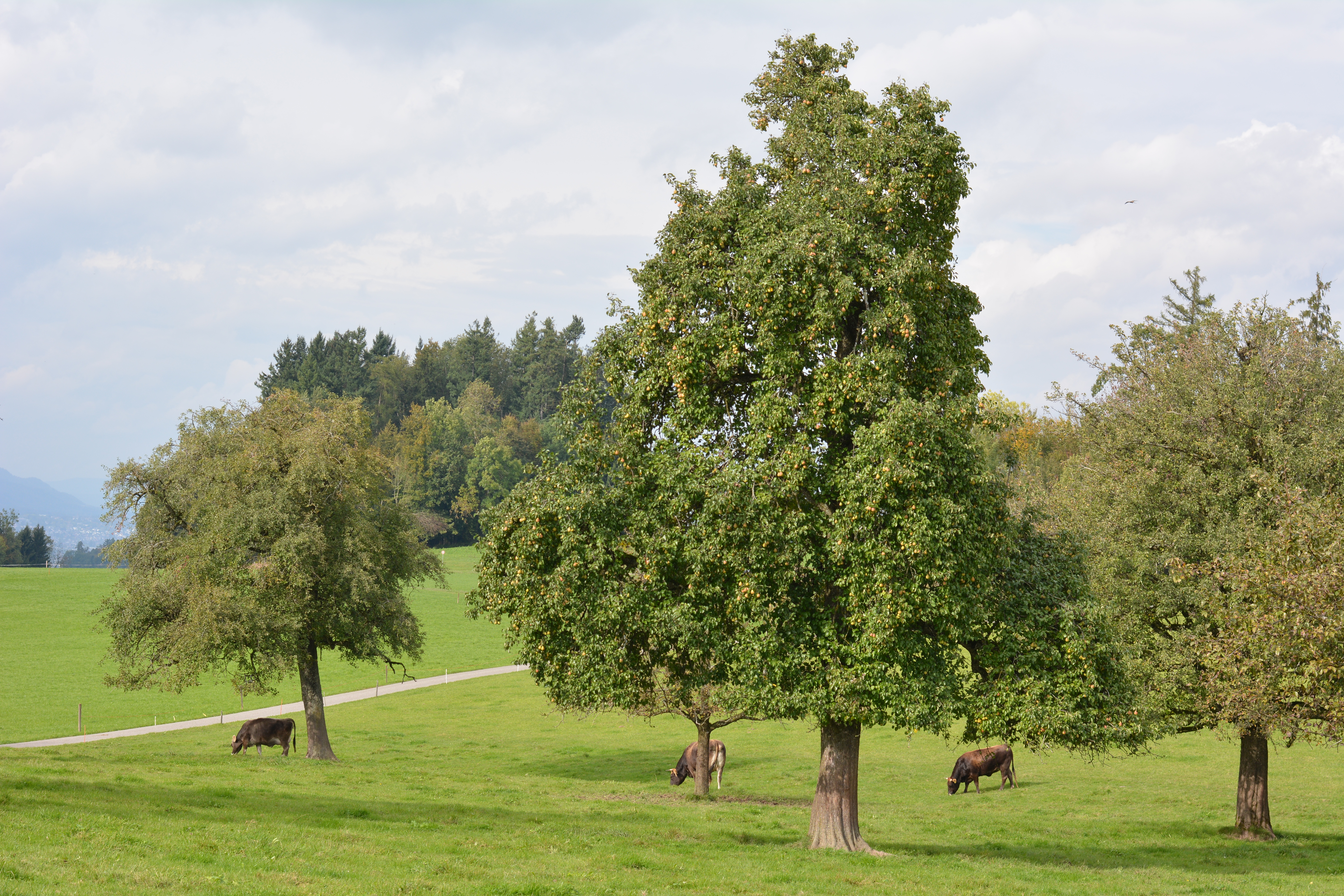 Standard tree of the Swiss pear variety "Ottenbacher Schellerbirne".